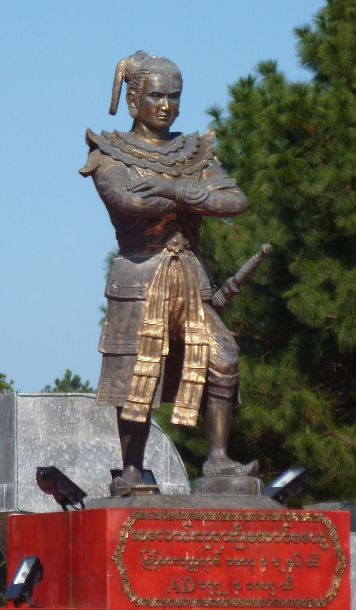 Statue of King Alaungpaya in front of the Defence Services Academy